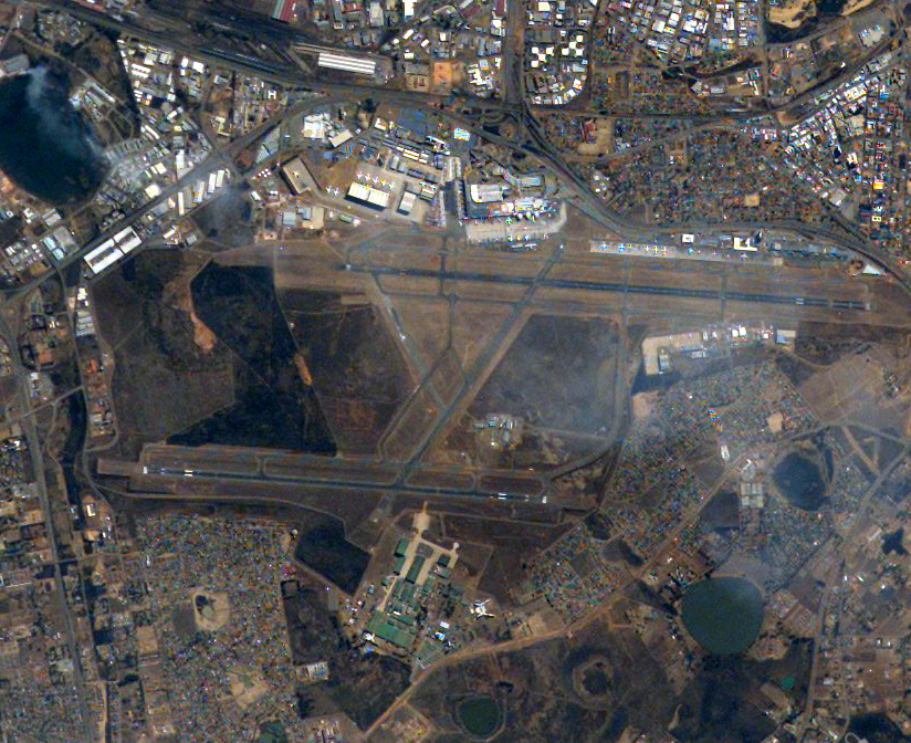 Johannesburg International Airport (aerial view).